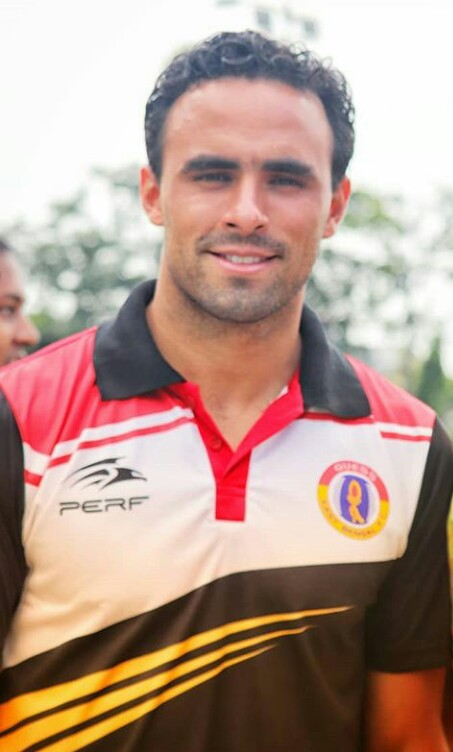 Enrique Esqueda, Mexican Footballer